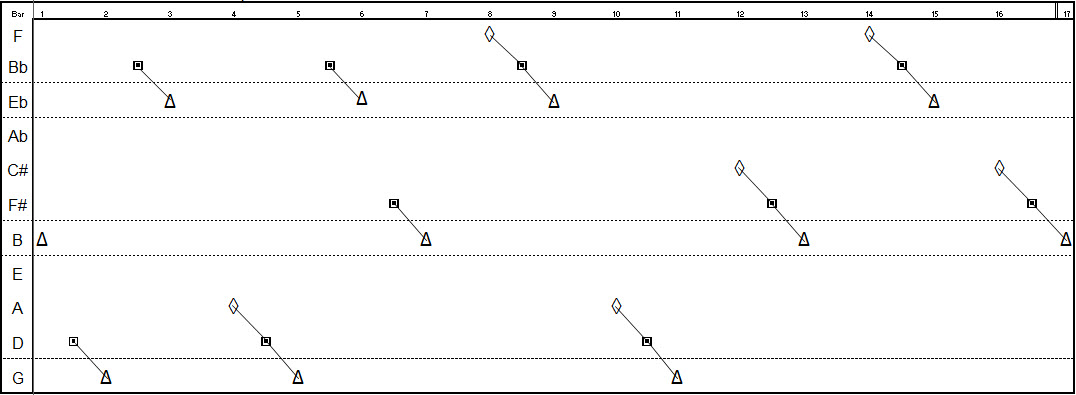 A SeeChord chart of "Giant Steps" by John Coltrane